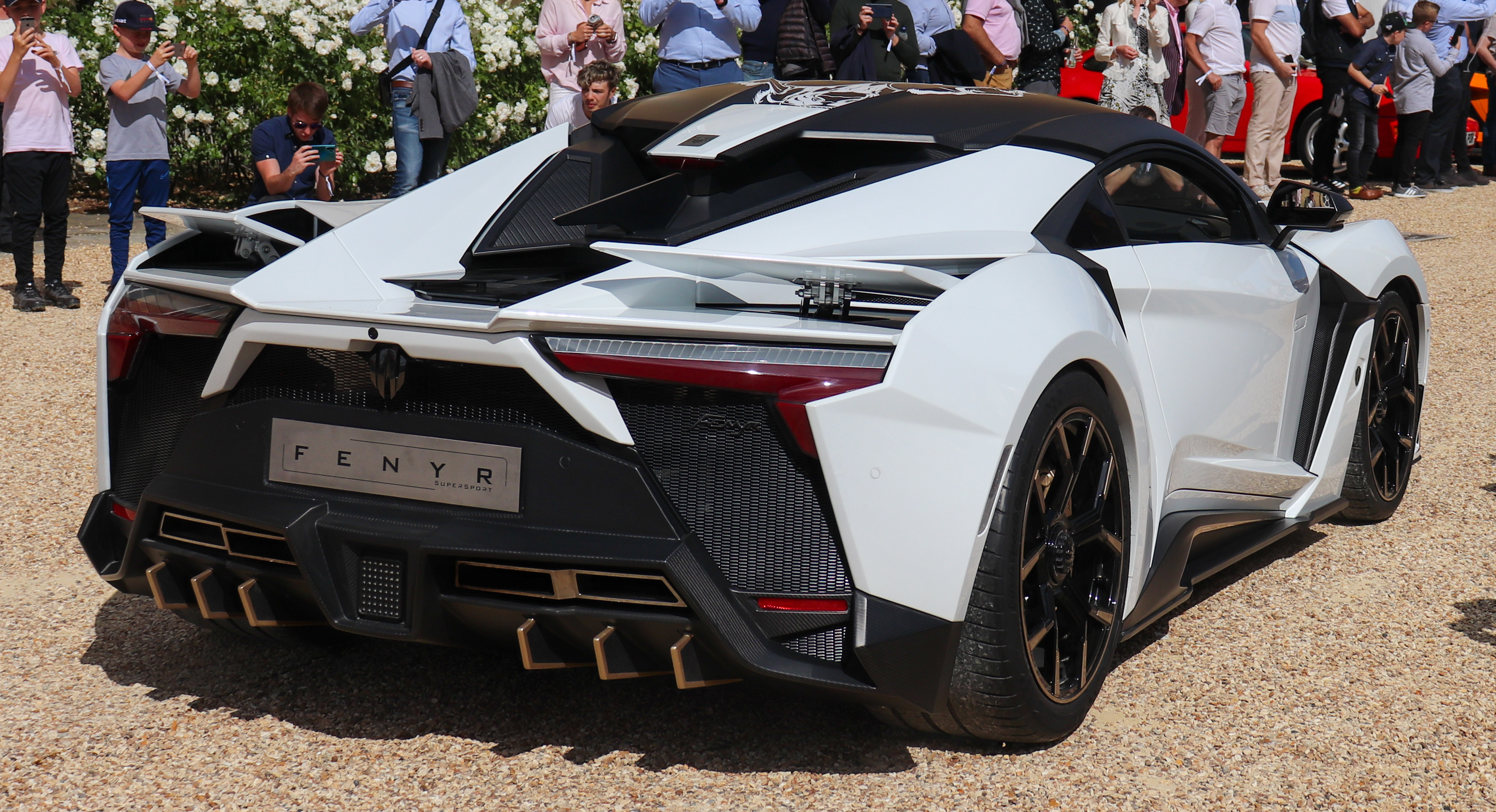 2018 W Motors Fenyr SuperSport 3.8 Rear Taken at the Salon Privé Concours d'Elegance Classic Car Motor Show 2019, Blenheim Palace